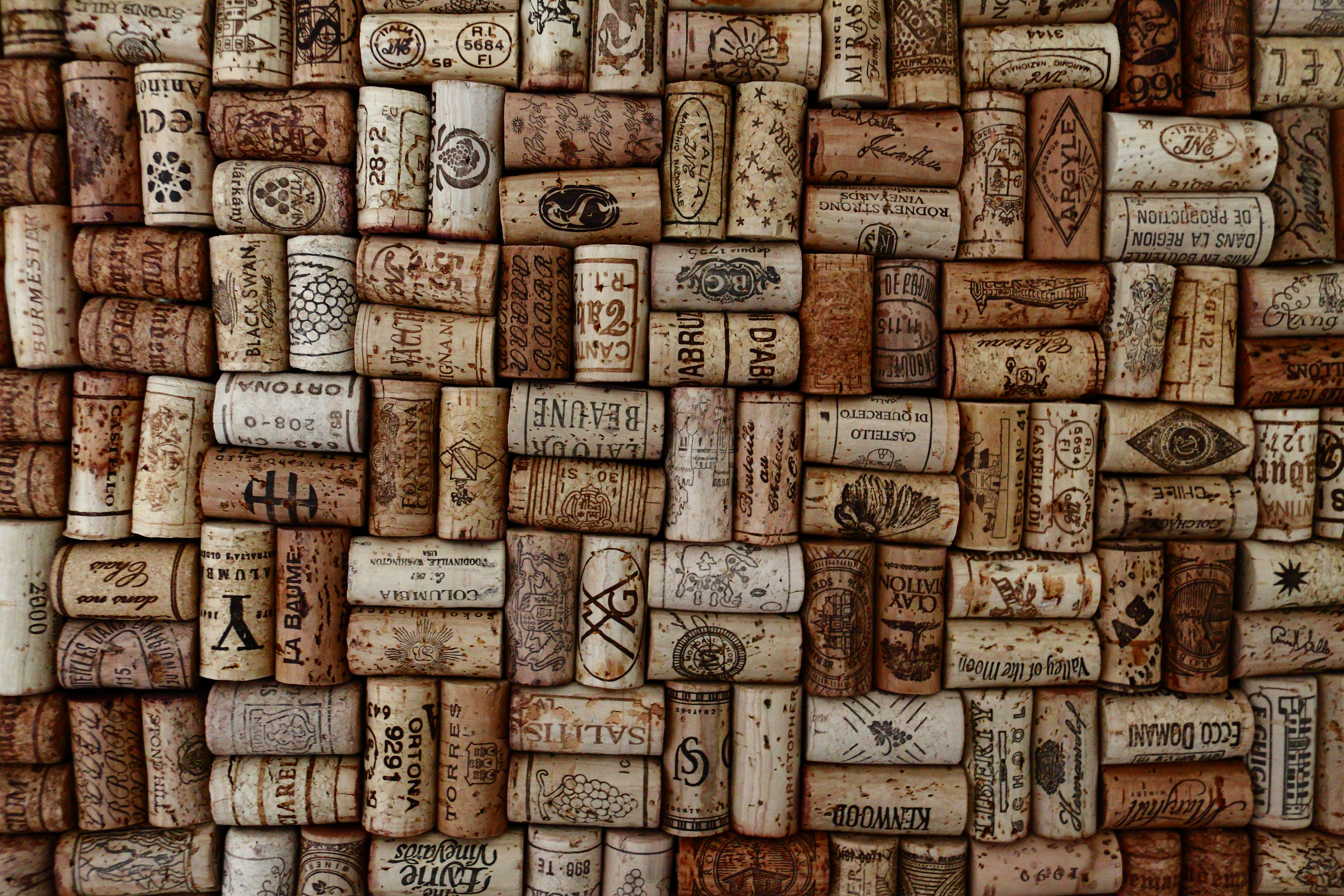 Cork Board